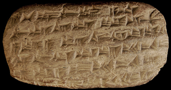 Cuneiform tablet containing letter written by Assyrian princess Serua-eterat